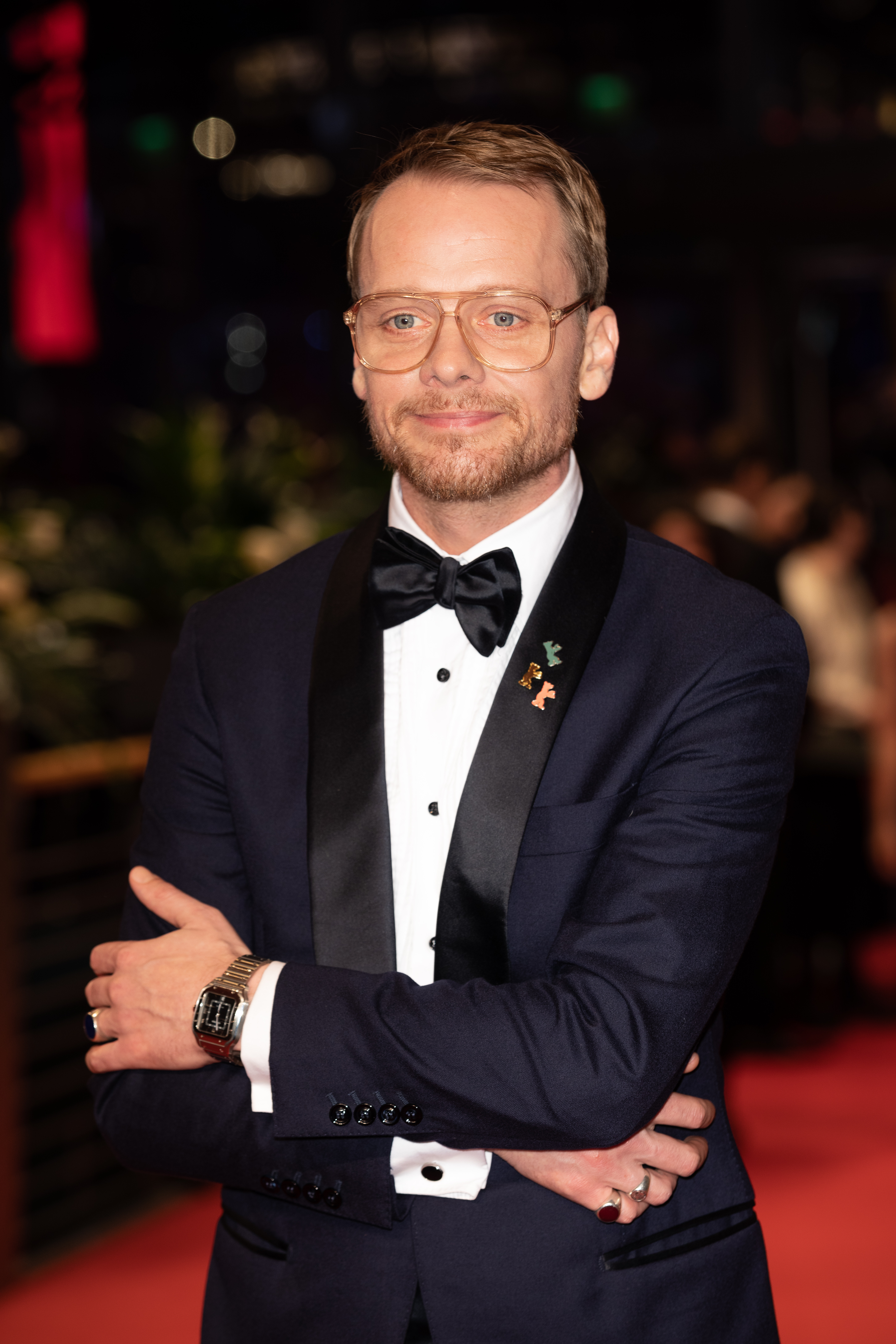 Stefan Konarske at the Berlinale 2020